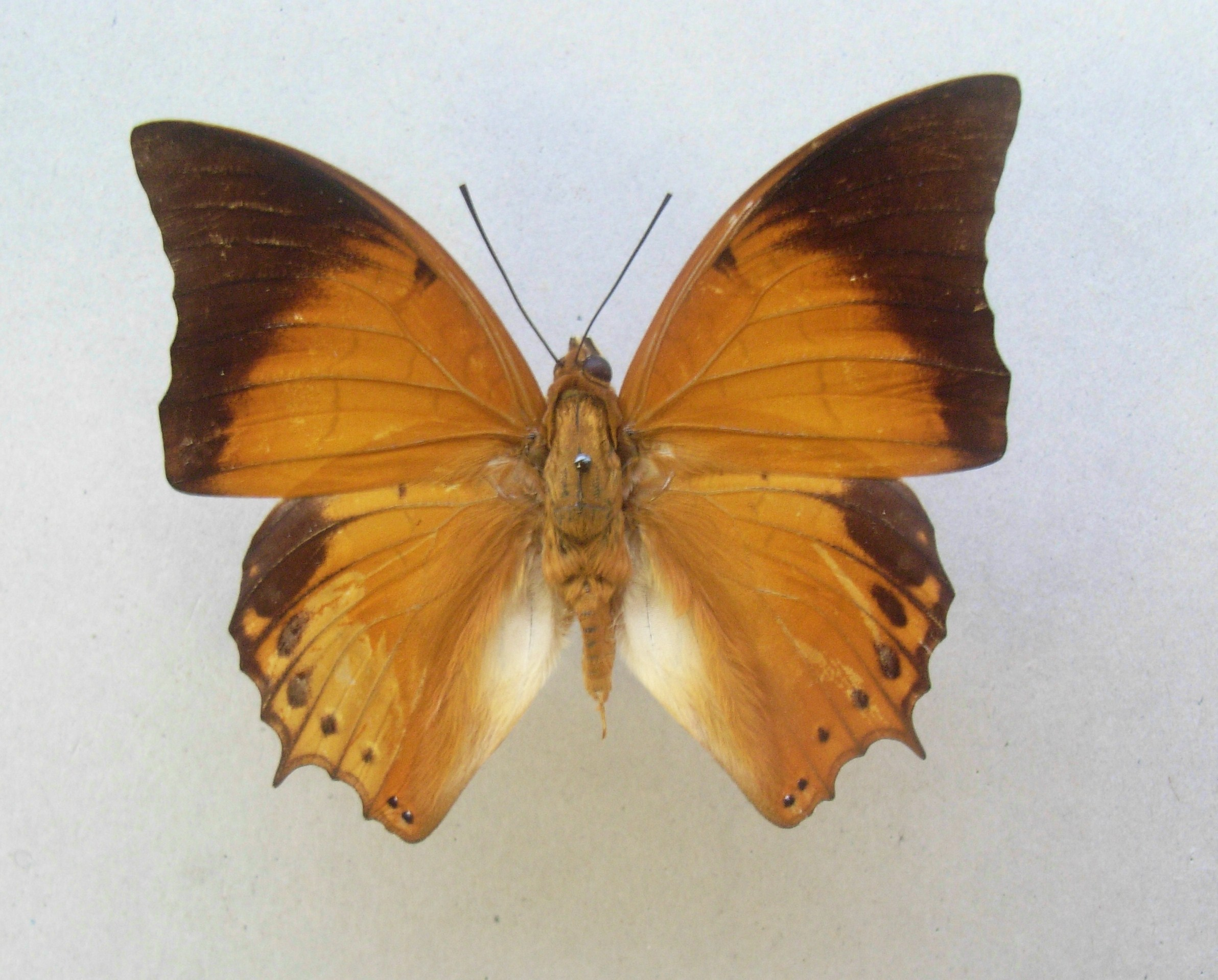 Charaxes affinis Butler, 1865